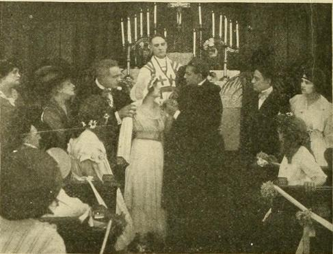 Still from 1915 silent film A Mother's Confession. Appeared in The Moving Picture World on September 4, 1915, page 1664.